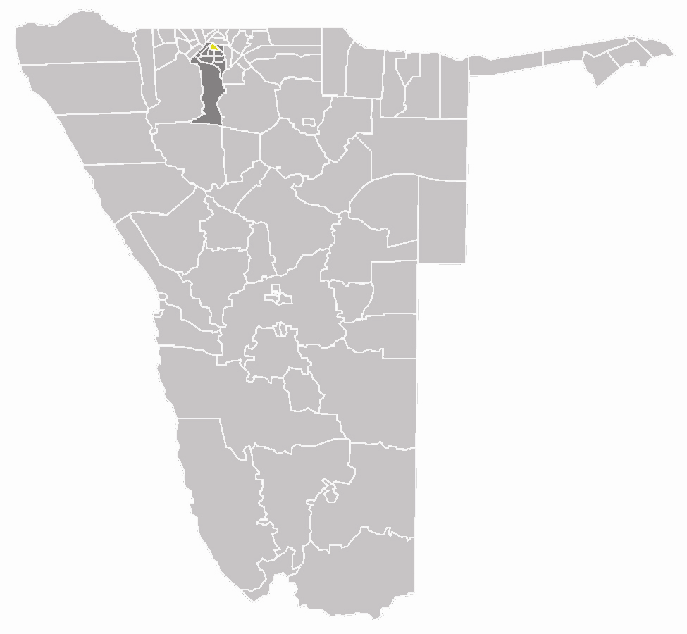 map of the Ongwediva constituency within the Oshana region, Namibia